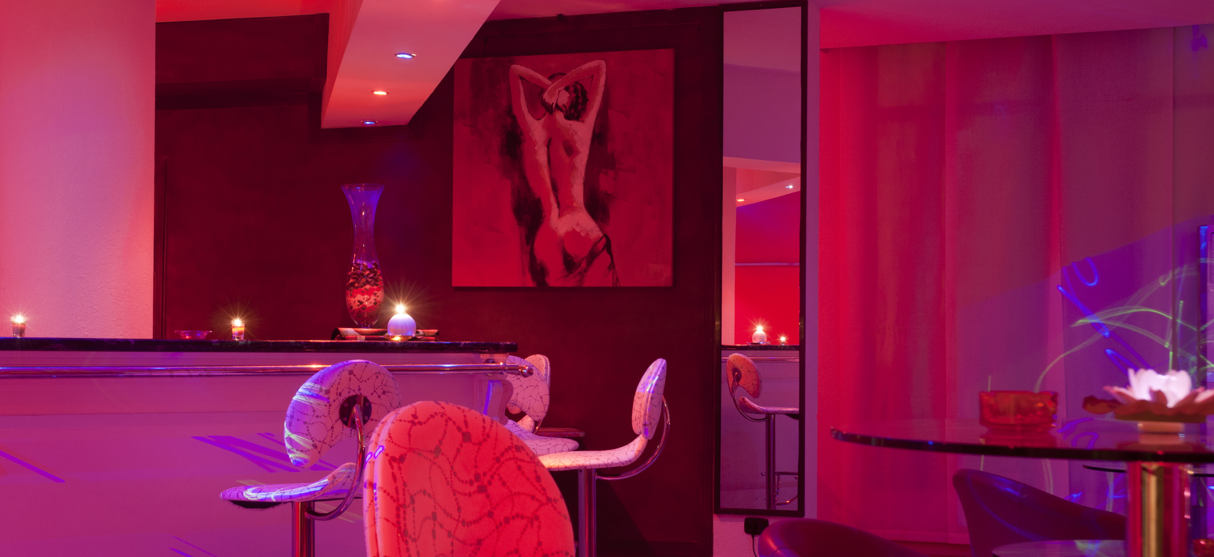 Lounge bar in Ouagadougou